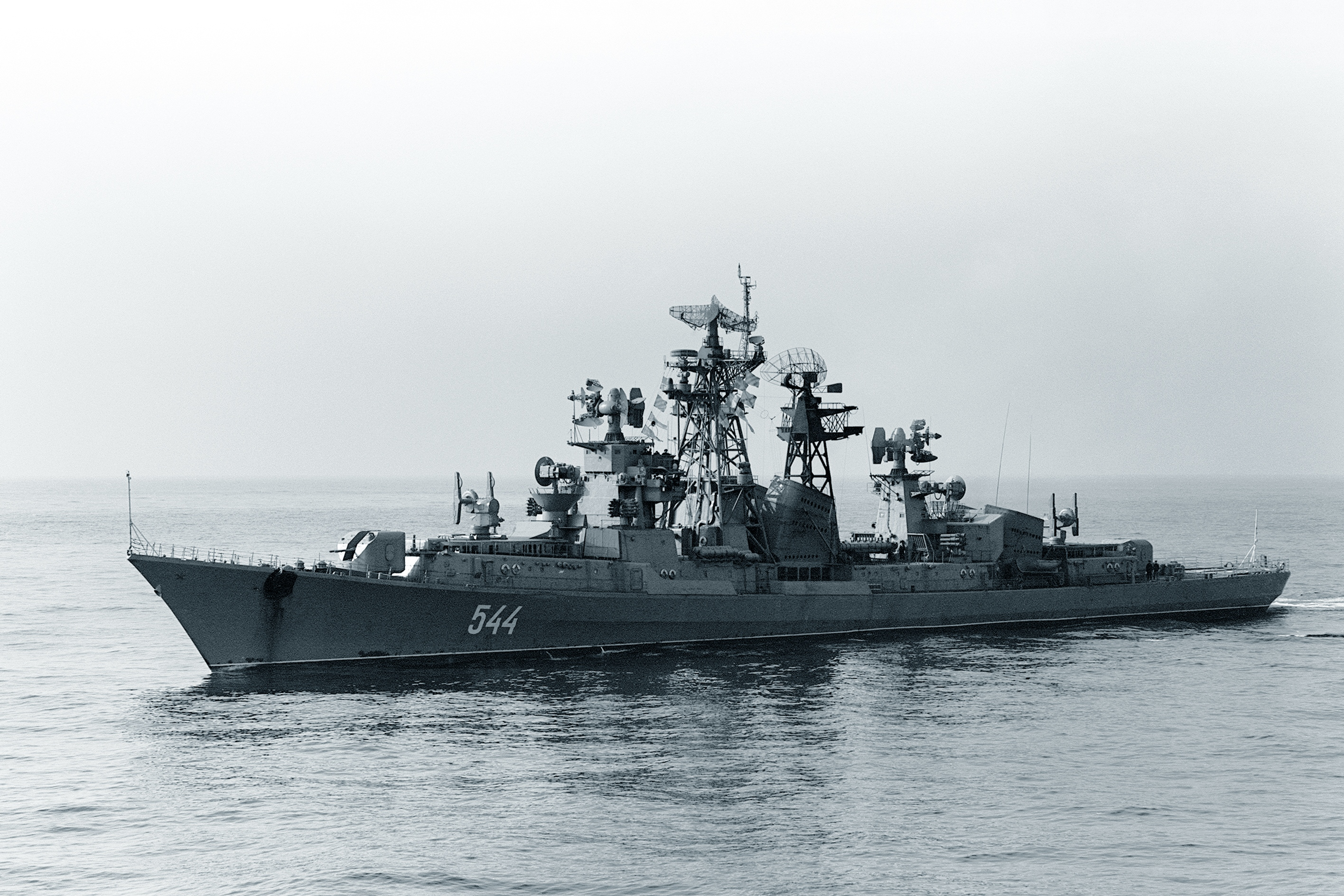 A port bow view of the Soviet Kashin class guided missile destroyer Sposobnyy underway.